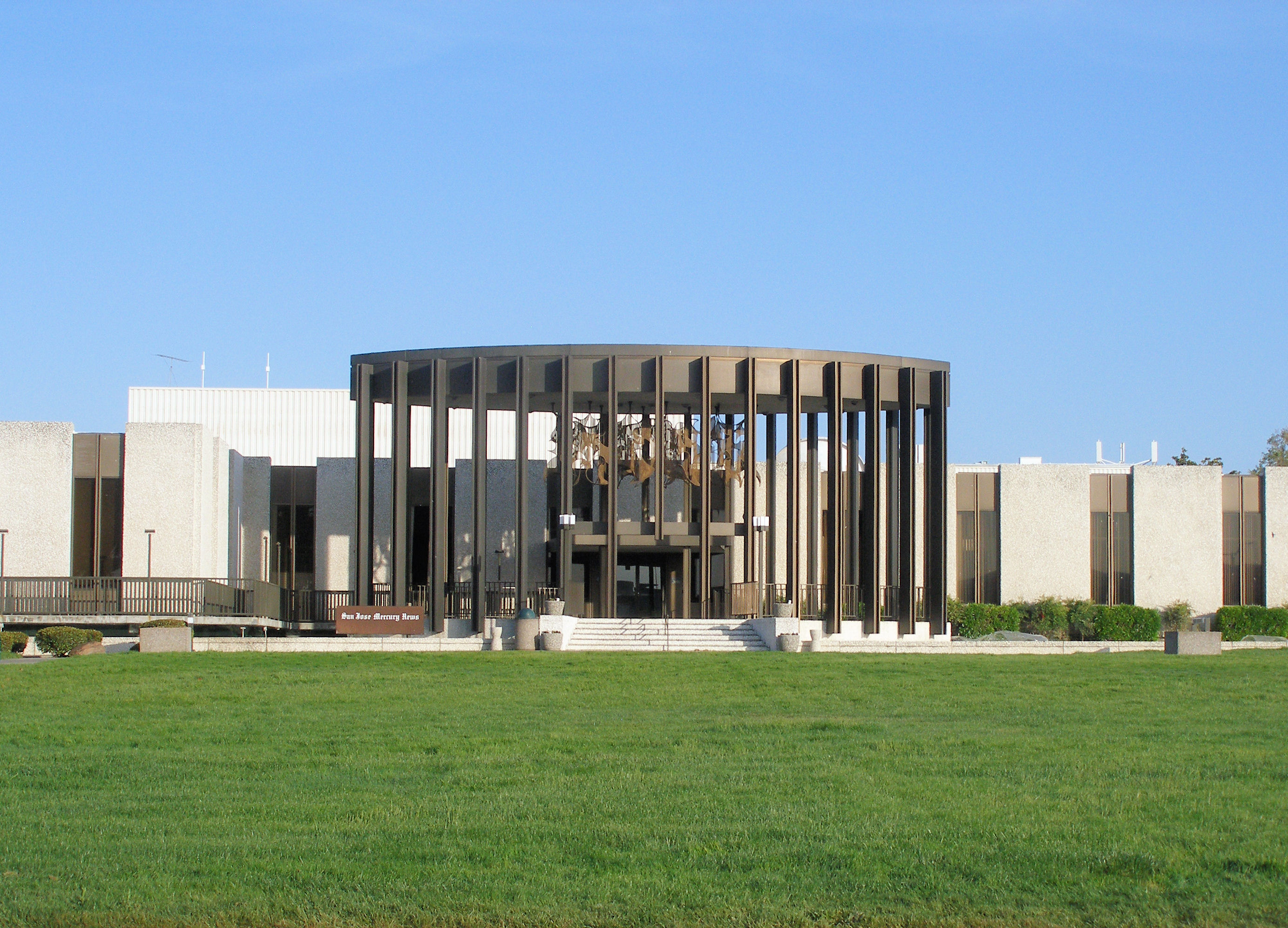 The headquarters of the San Jose Mercury News at 750 Ridder Park Drive, San Jose, near Interstate 880.